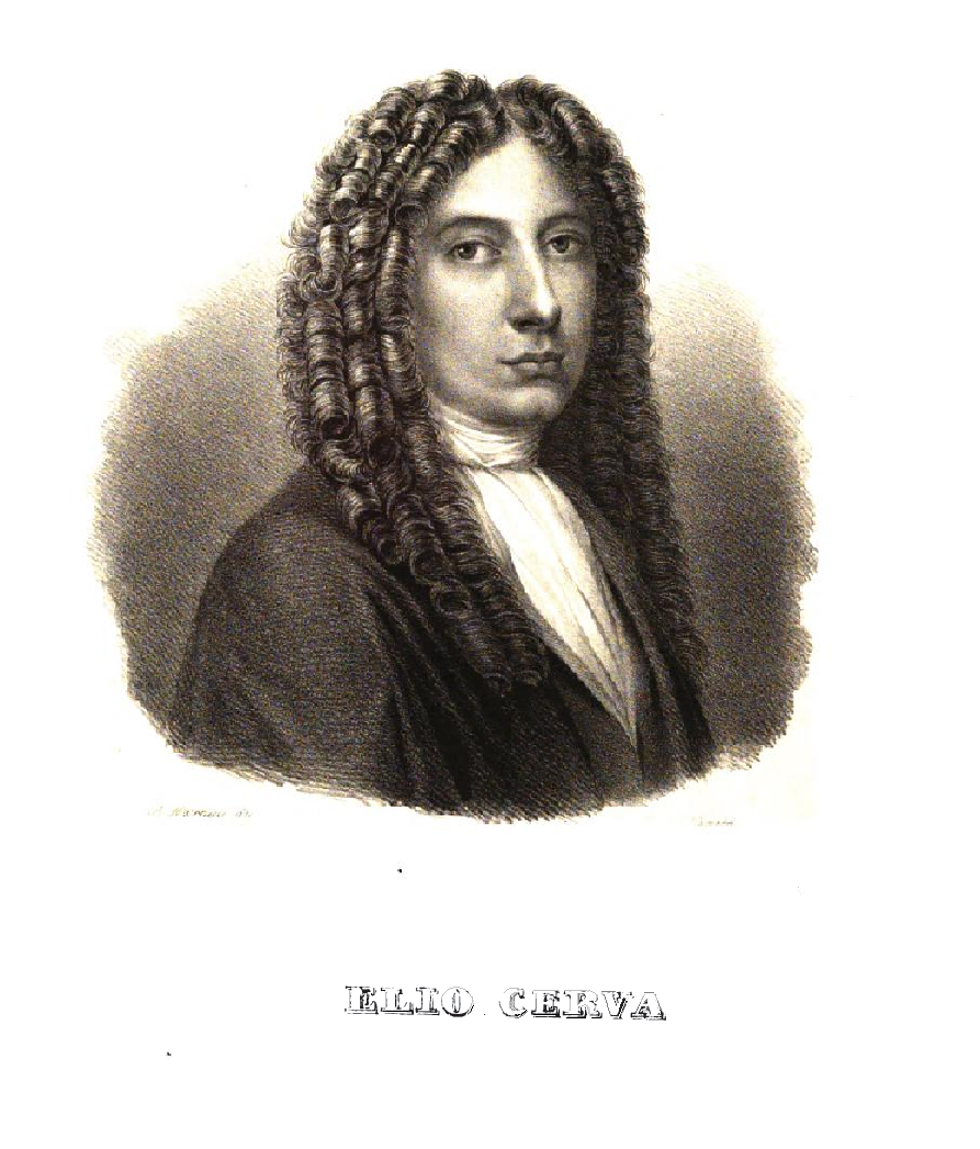 Elio Lampridio Cerva (Aelius Lampridius Cervinus) from Ragusa